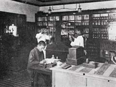 Ozawa Pharmacy was located in Tōkyō City, Tōkyō Prefecture.